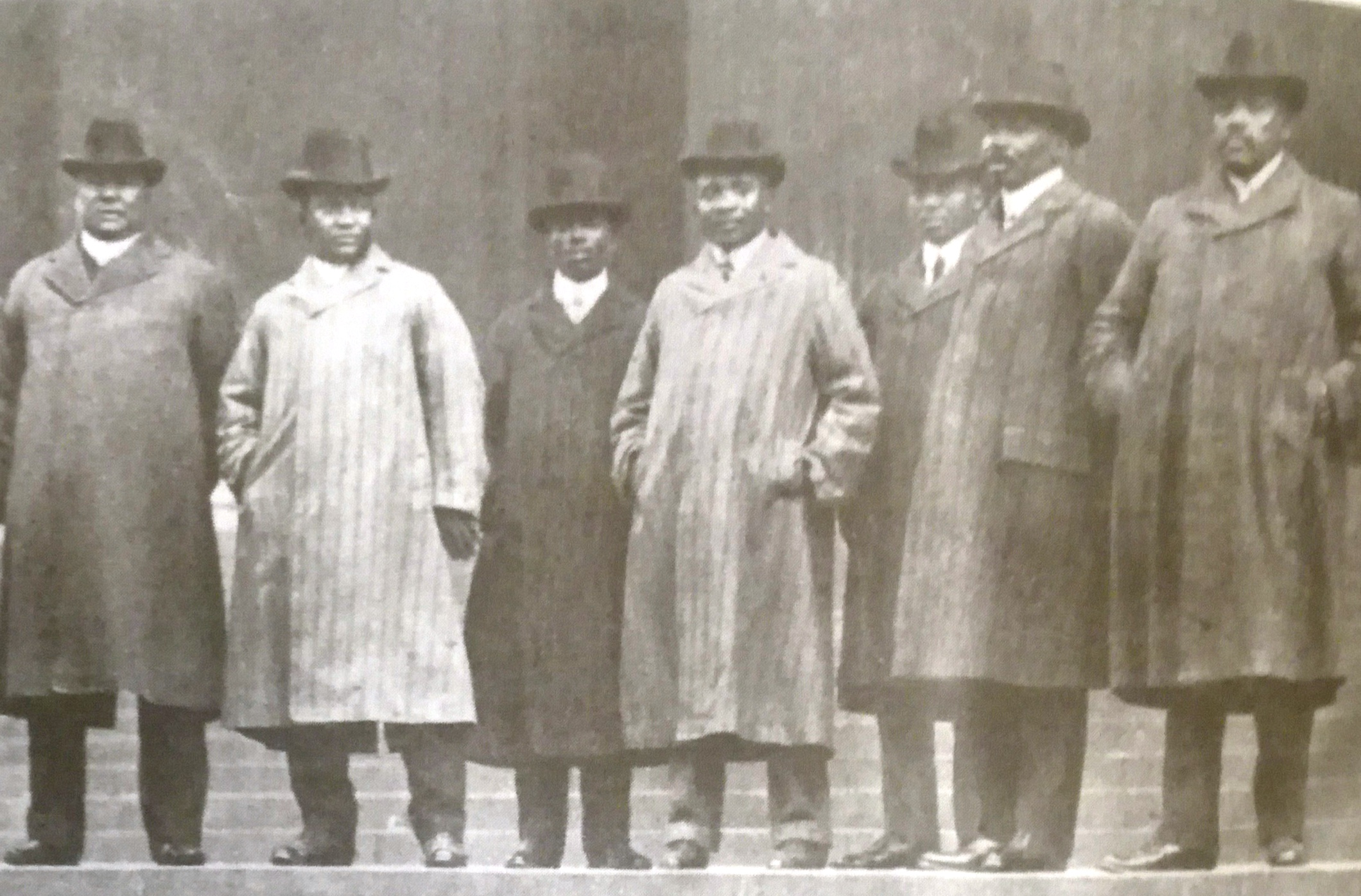 Diplomatic delegation of Sotho Chiefs and other Sotho leaders. 1909.